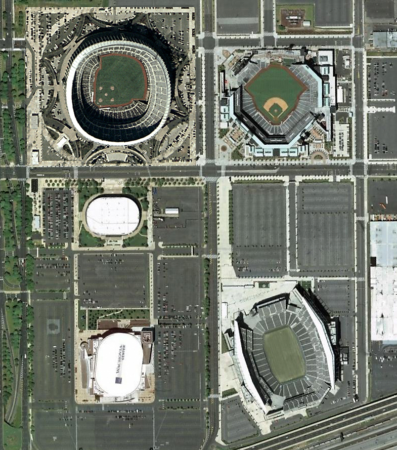 South Philadelphia Sports Complex, Philadelphia PA Note: This image is a digital composite to which Veterans Stadium (demolished in 2004) was added to show where it stood from 1971 to 2004.